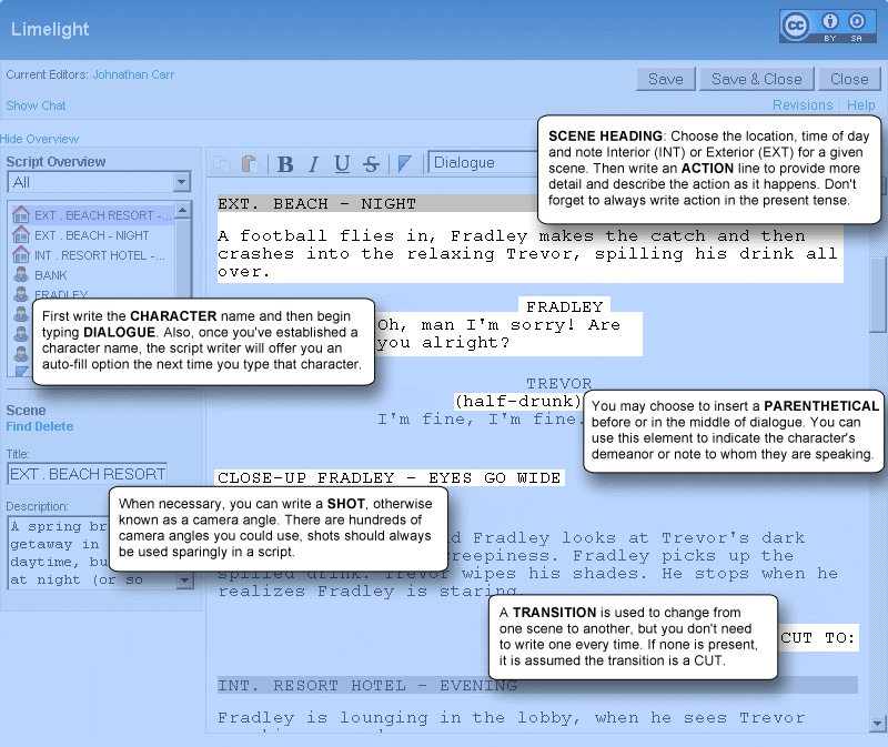 Screenshot of the help pages on